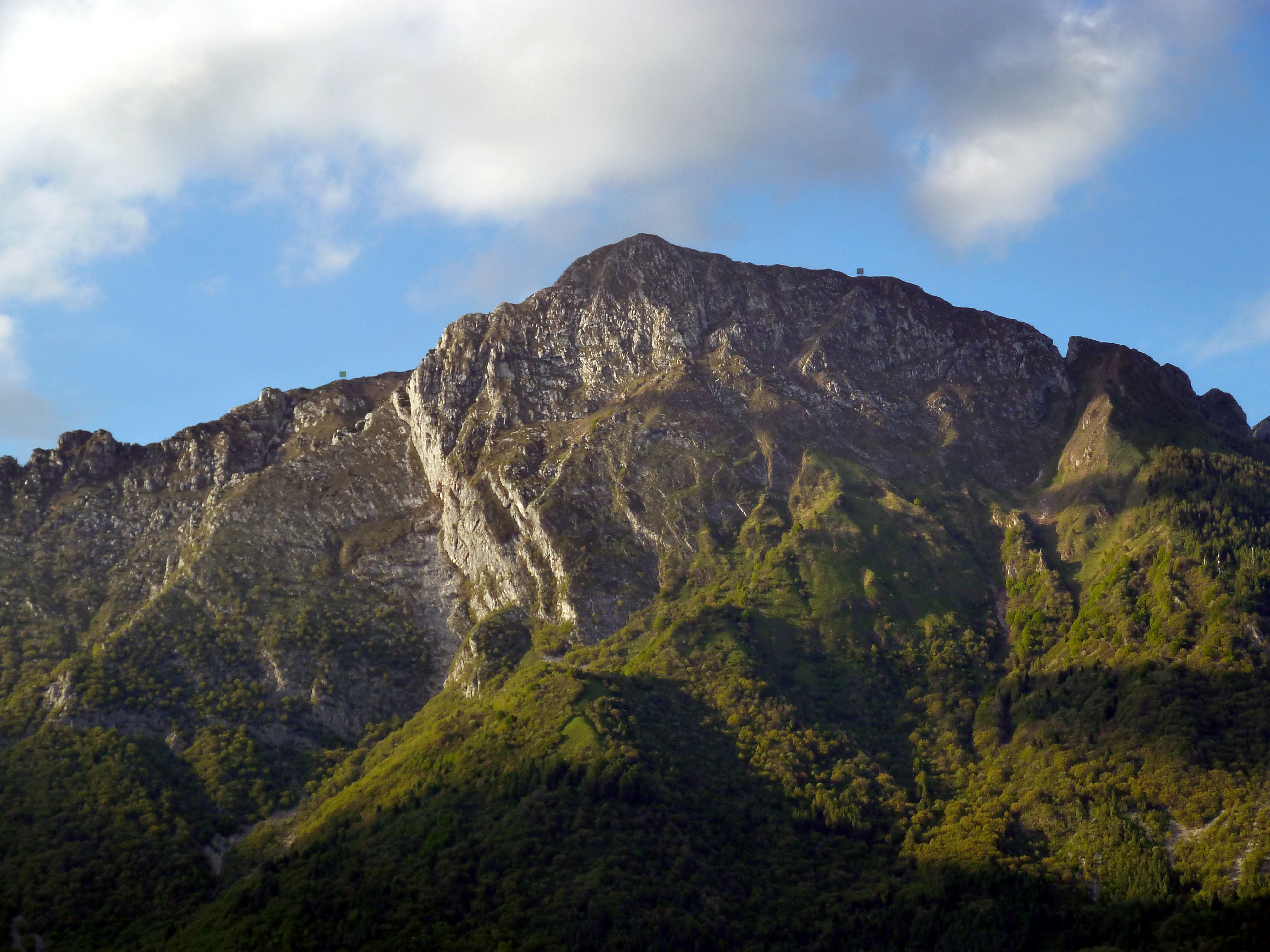 Monte Dolada, as seen from A27 motorway ending barrier of Belluno